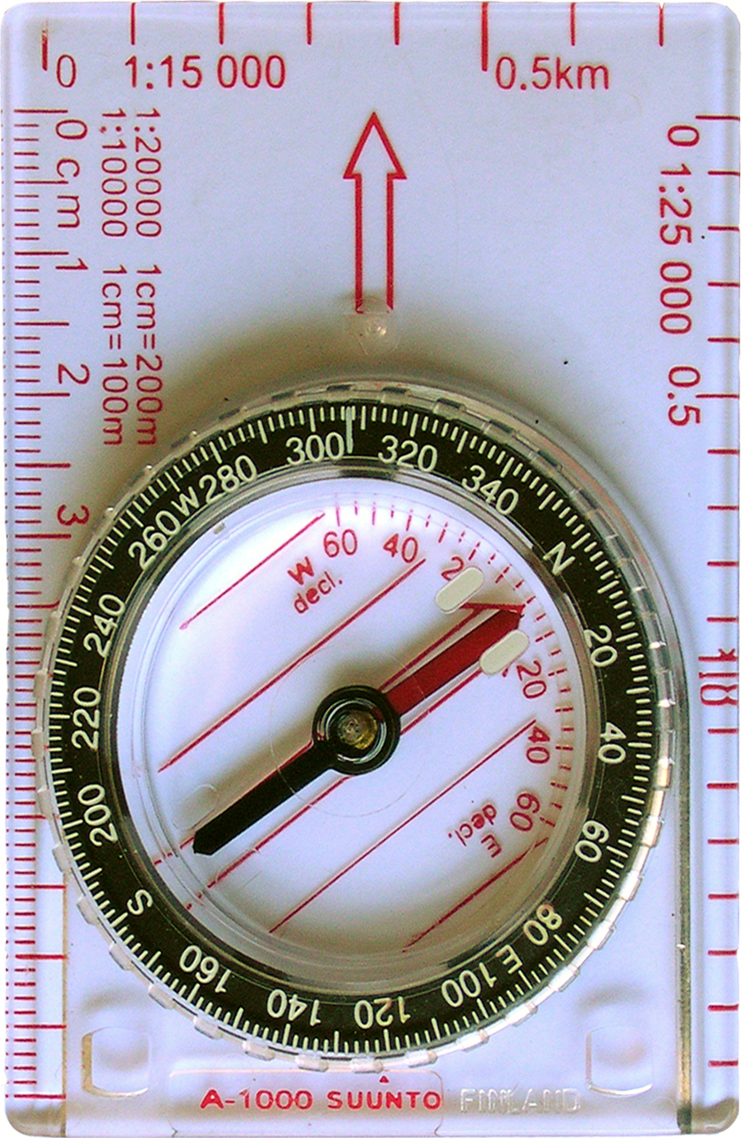 Hiking compass